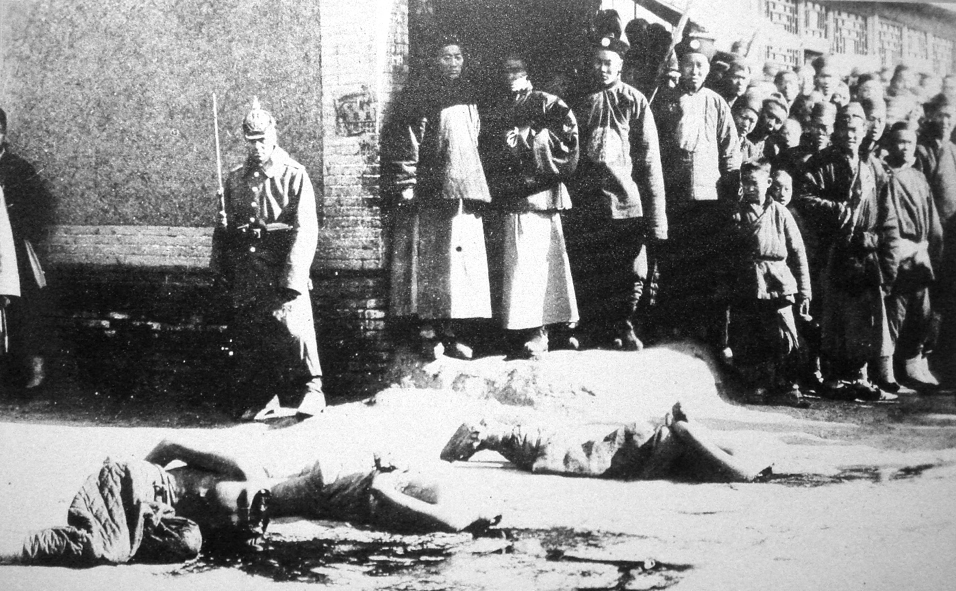 Execution_of_Boxer_leaders_at_Hsi-Kou_1900-1901